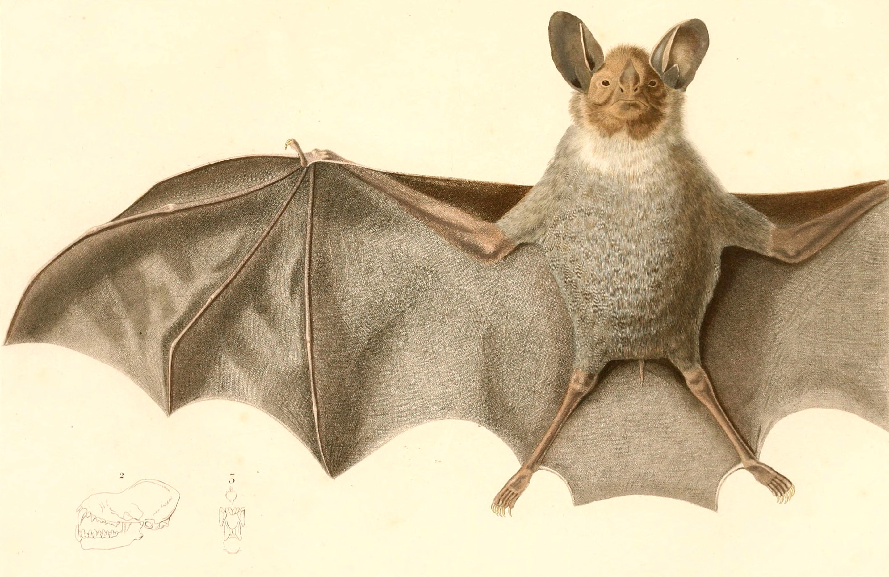 « Lophostoma silvicola » = Lophostoma silvicolum (White-throated Round-eared Bat)